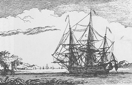 Fire Ship